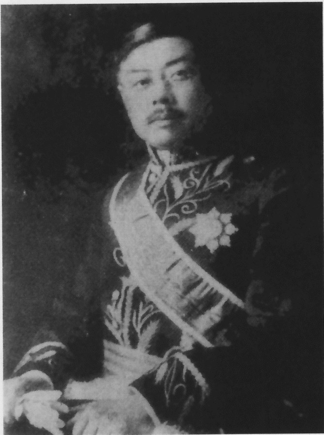 Yan Huiqing (Dr. W.W. Yen) (1877 - 1950)